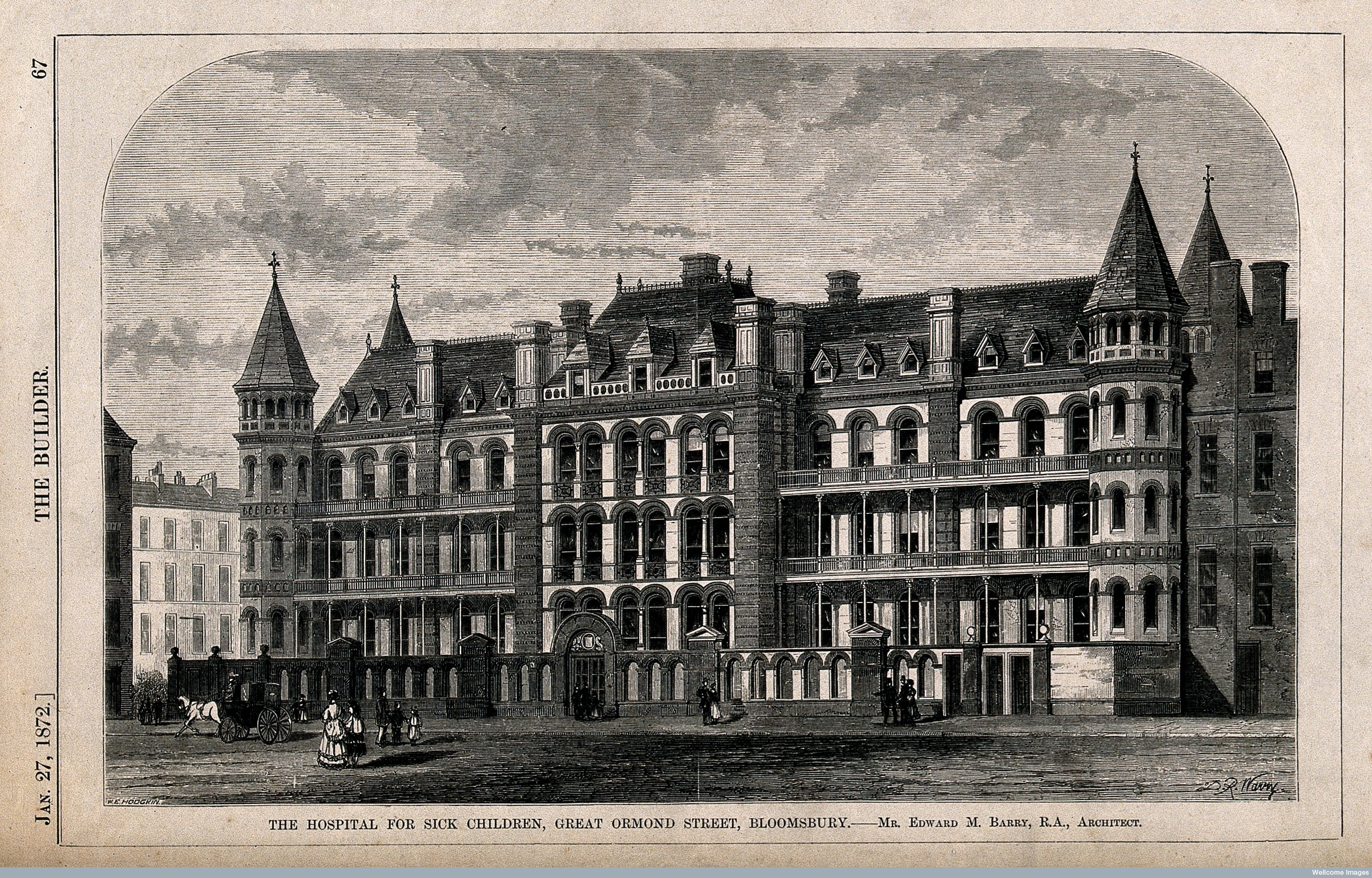 V0013432 The Hospital for Sick Children, Great Ormond Street, London: Credit: Wellcome Library, London. Wellcome Images The Hospital for Sick Children, Great Ormond Street, London: the main facade. Wood engraving by W. E. Hodgkin after D. R. Warry, 1872. 1872 By: Daniel Robert Warryafter: W. E. Hodgkin and Edward Middleton BarryPublished: - Copyrighted work available under Creative Commons Attribution only licence CC BY 4.0